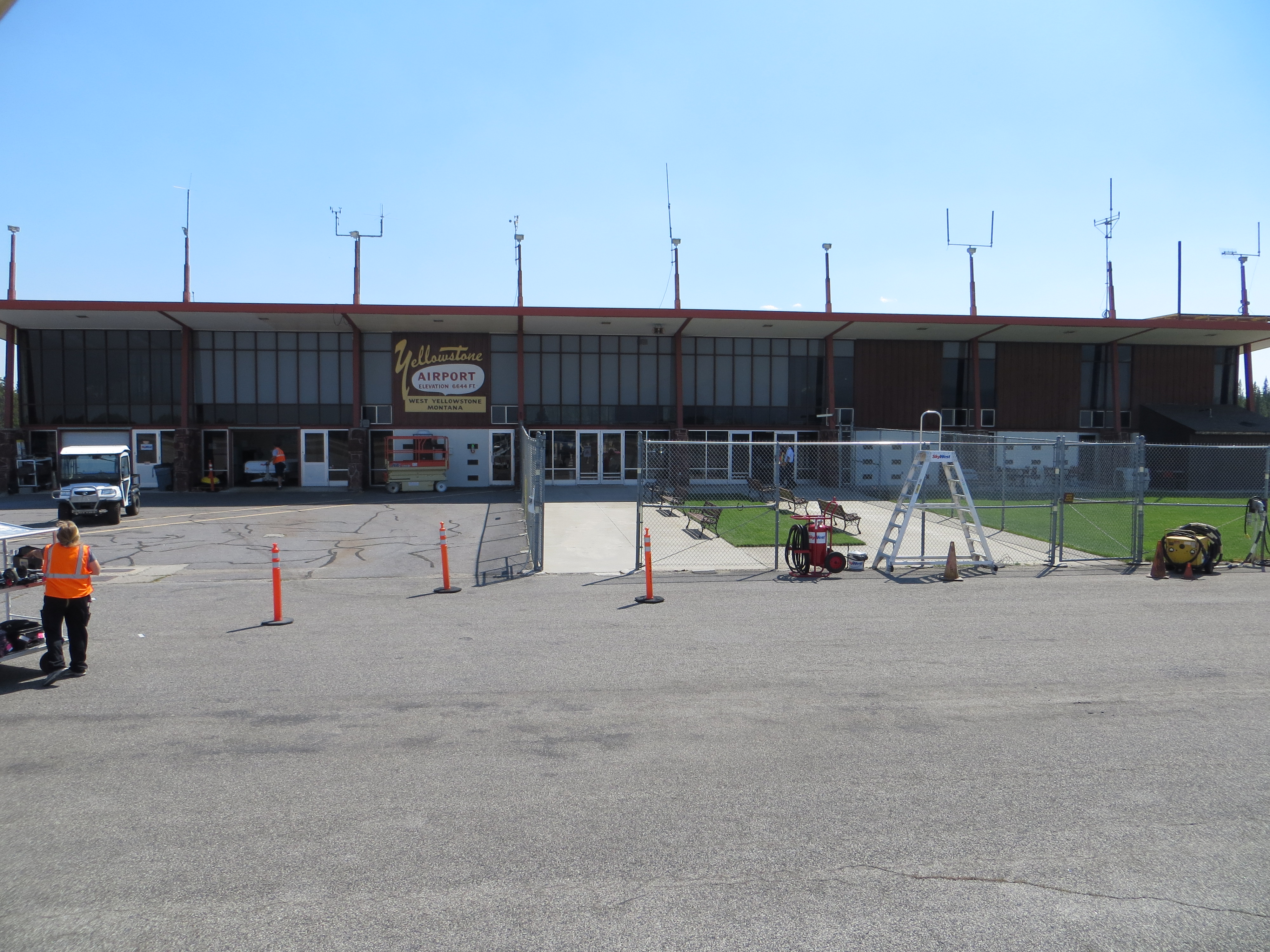 An overview of the terminal building at West Yellowstone Airport.